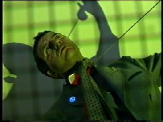 Giuda a film directed by Flavio Sciolè